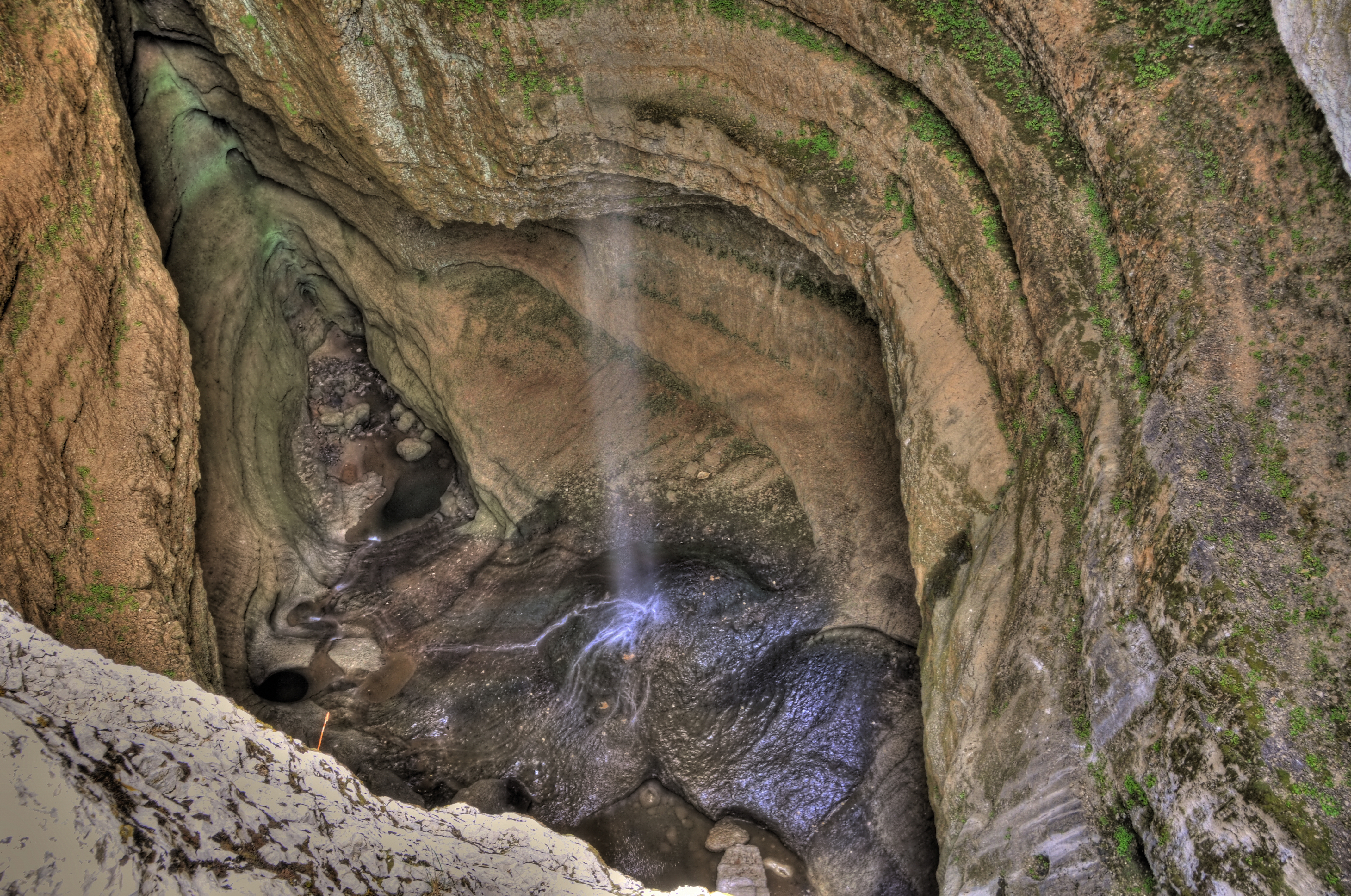 HDR from three shots exposed by aperture. Photomatix